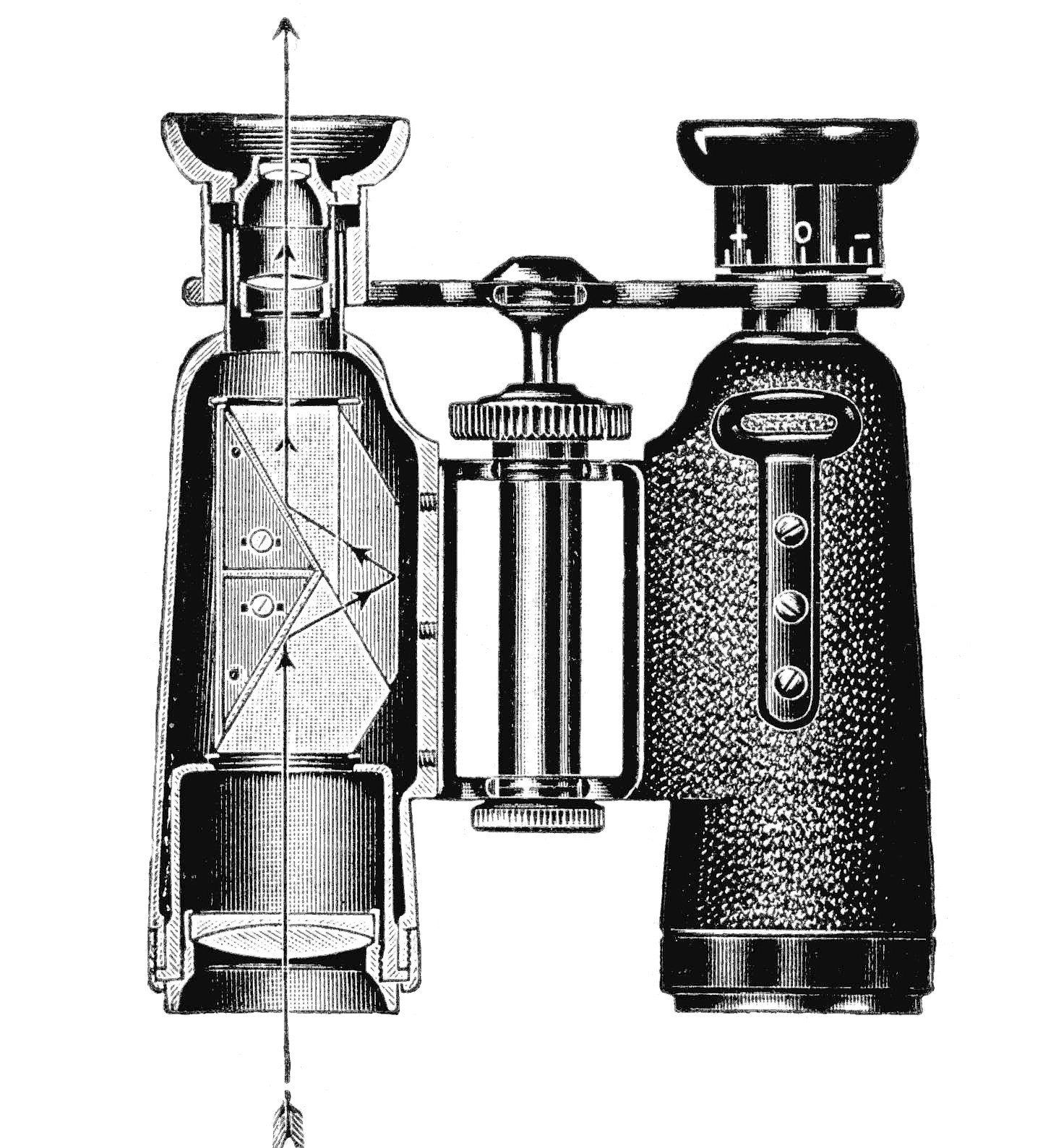 double prism spy-glass